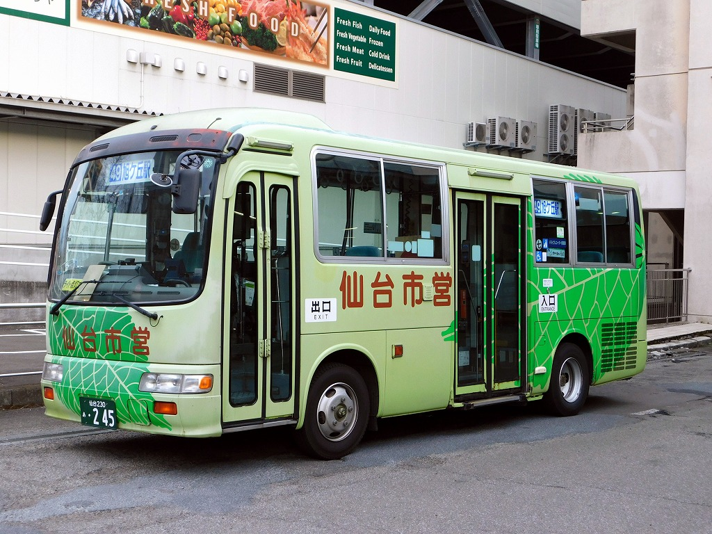 Sendai city bus Hino Liesse (KK-RX4JFEA,for Nankodai community bus)